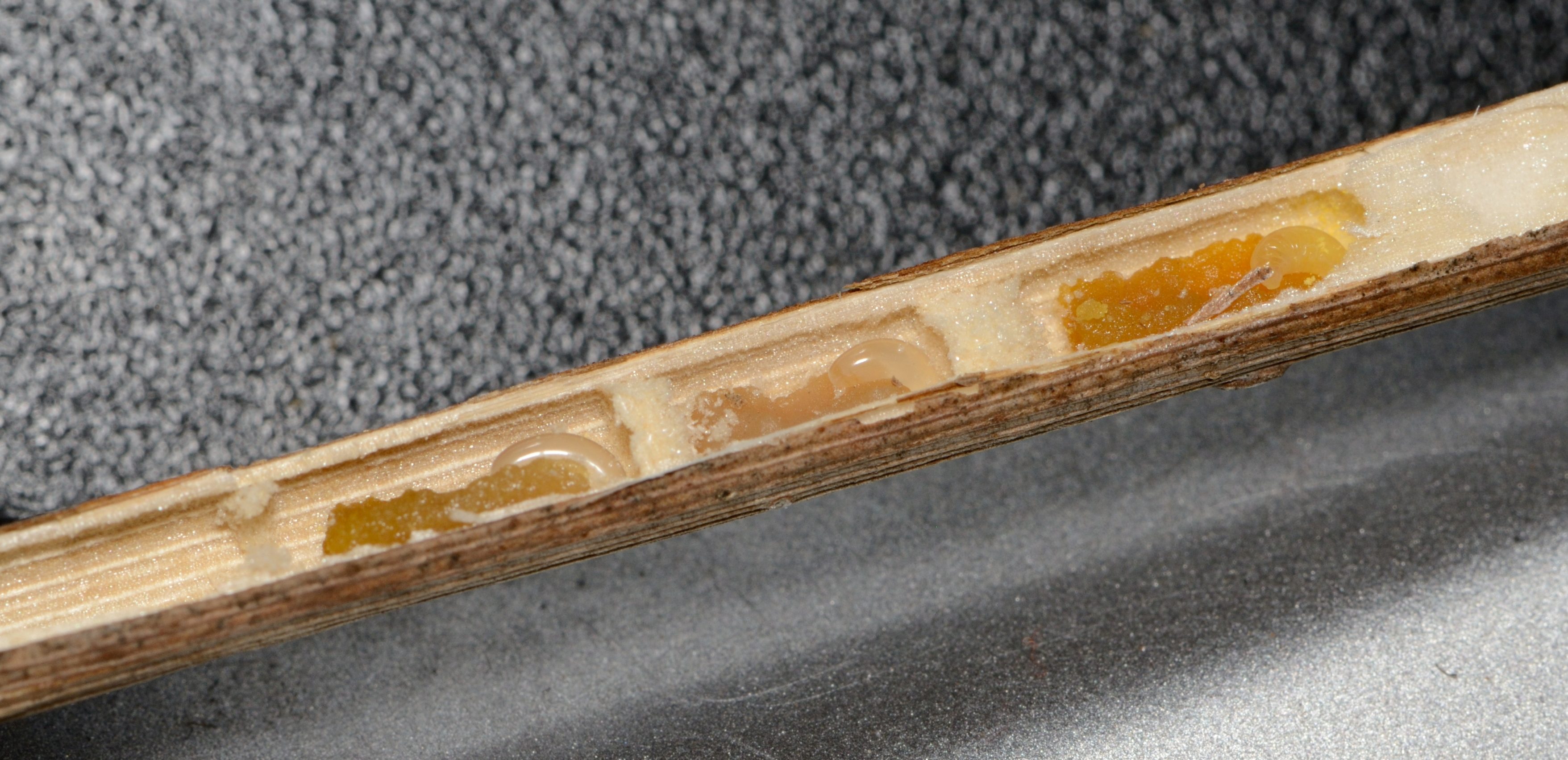 Interior of the nest of a small carpenter bee (Ceratina sp.) built in a dry stem of fennel (Foeniculum vulgare). The upper side of the stem is to the left. The nest contains three cells, each cell with pollen bread and one offspring. In the lowermost cell (on the right), the larva has already hatched. The other two cells still contain eggs. Collected in the Judean Foothills, Israel, June 6, 2013.